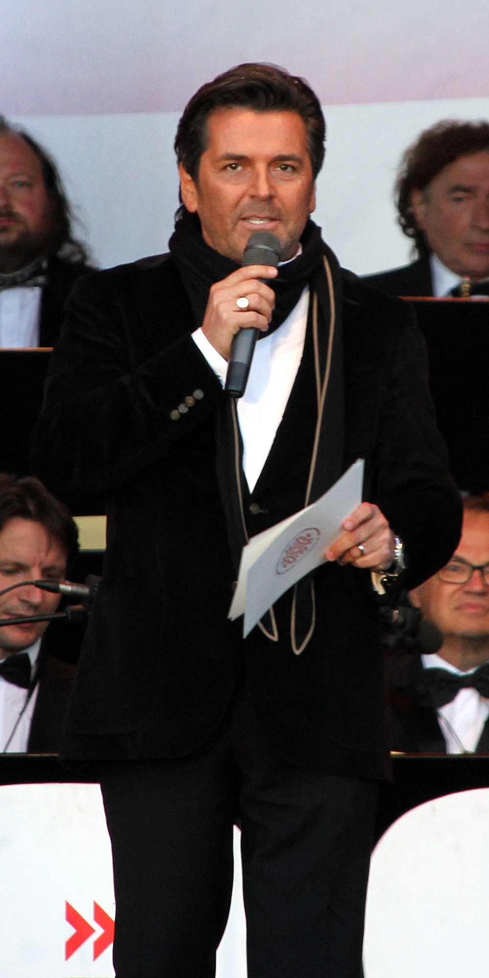 Federal Horticultural Show 2011 in Koblenz